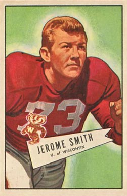 American football player Jerry Smith (coach) on a 1952 Bowman Large card.